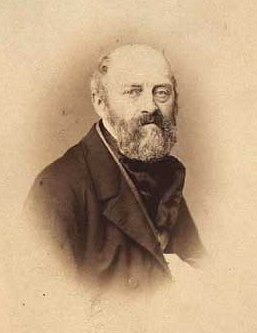 Frederik Ferdinand Helsted (1809-1875), Danish painter and educator